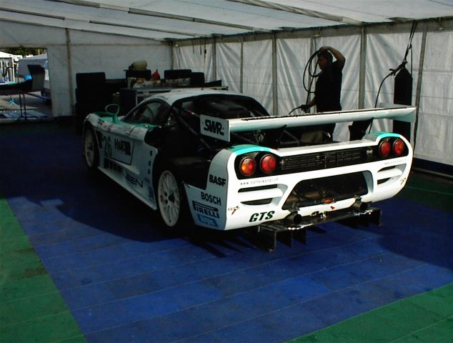 Konrad Motorsports' Saleen S7-R at the 2002 Grand Prix of Mosport.